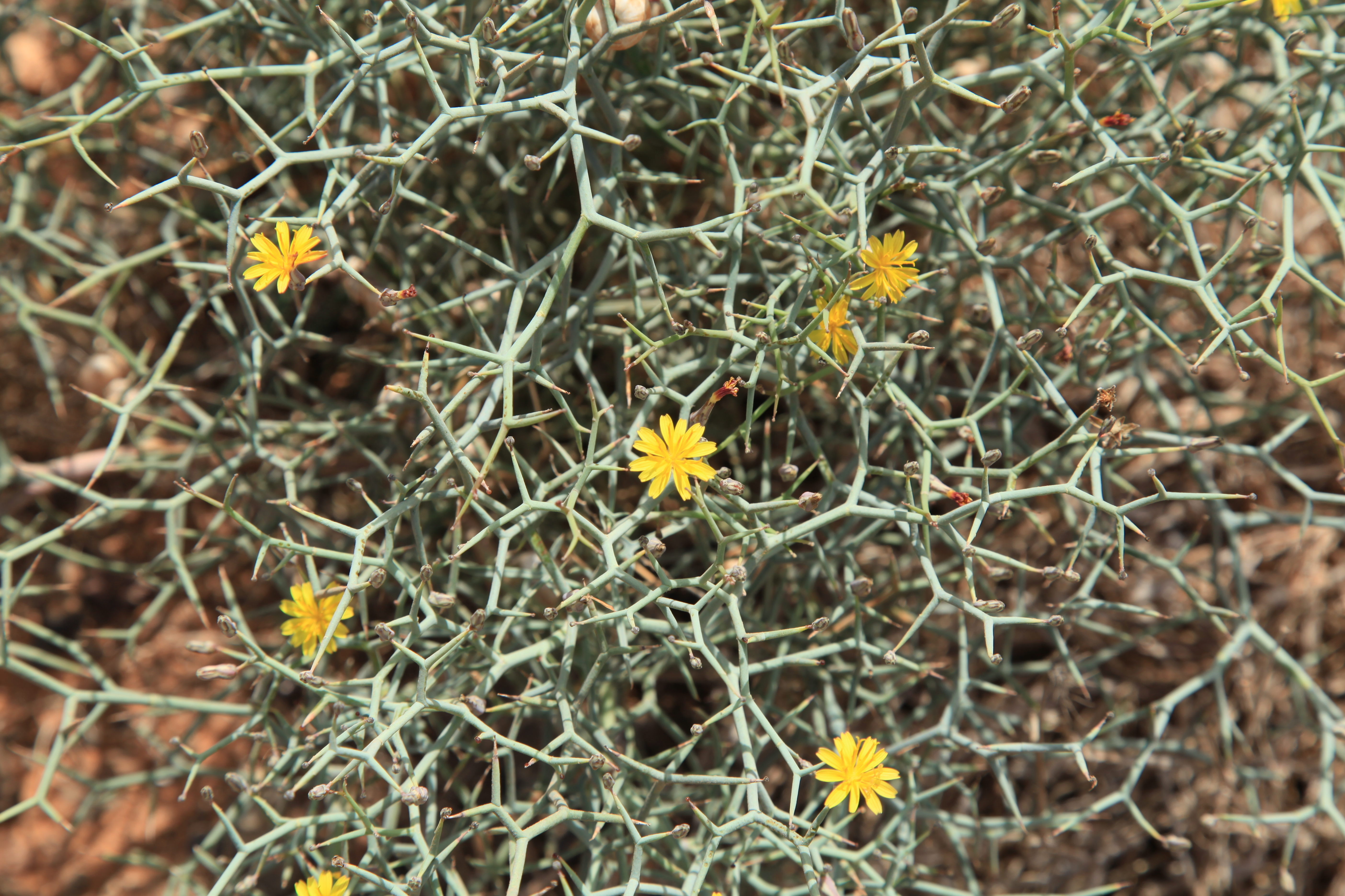 Launaea arborescens growing at road FV-10 in Tetir, Puerto del Rosario, Fuerteventura, Canary Islands